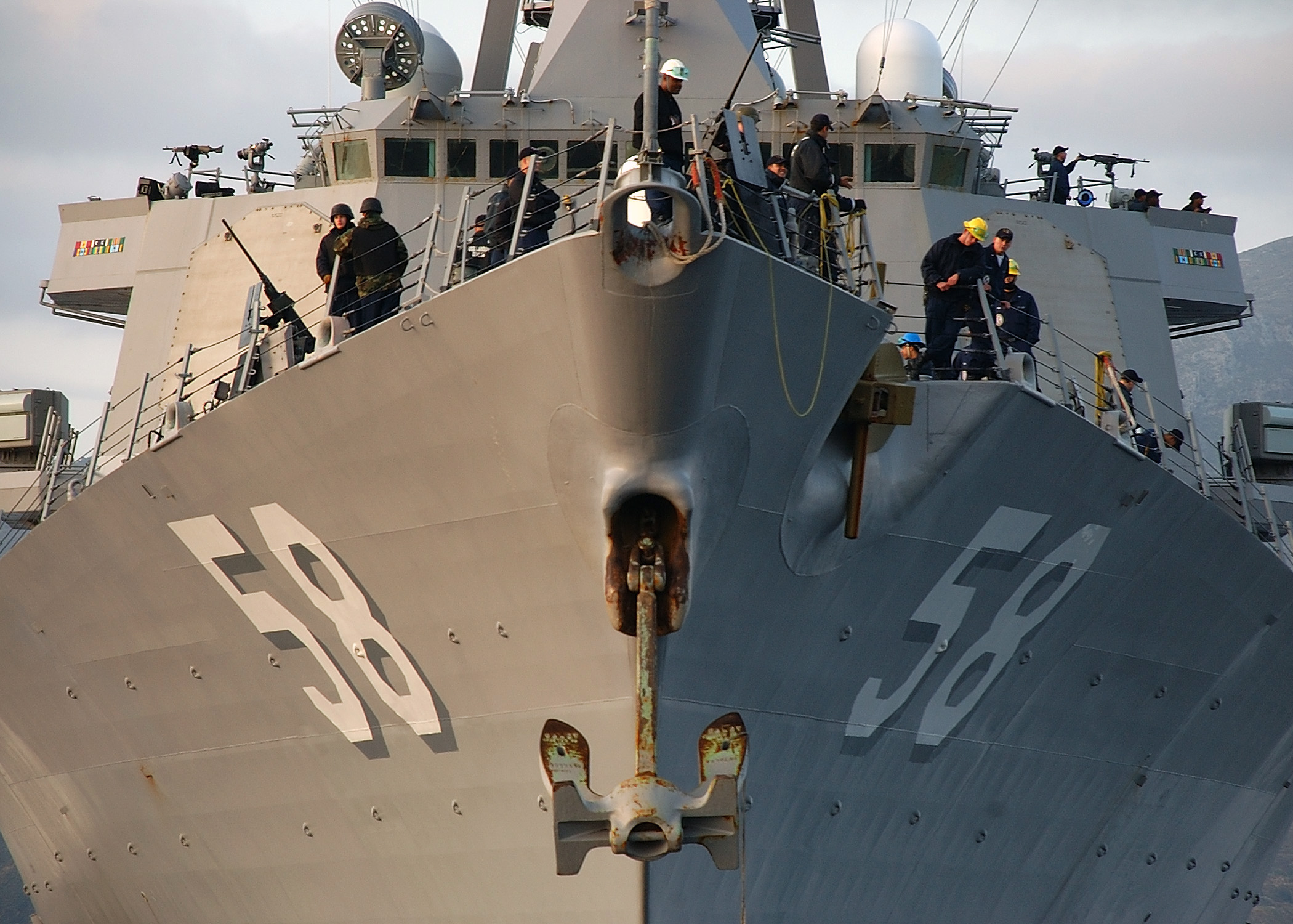 SOUDA BAY, Greece (Jan. 9, 2008) Sailors conduct mooring operations as guided missile destroyer USS Laboon (DDG 58) arrives for a routine port visit to the island of Crete. Laboon is on a scheduled six-month deployment in support of Standing NATO Maritime Group (SNMG) 2 and is conducting operations in support of Operation Active Endeavor. Active Endeavor operates in the Mediterranean Sea and is designed to prevent the movement of terrorists or weapons of mass destruction as well as to enhance the security of shipping in general. U.S. Navy photo by Paul Farley (Released)